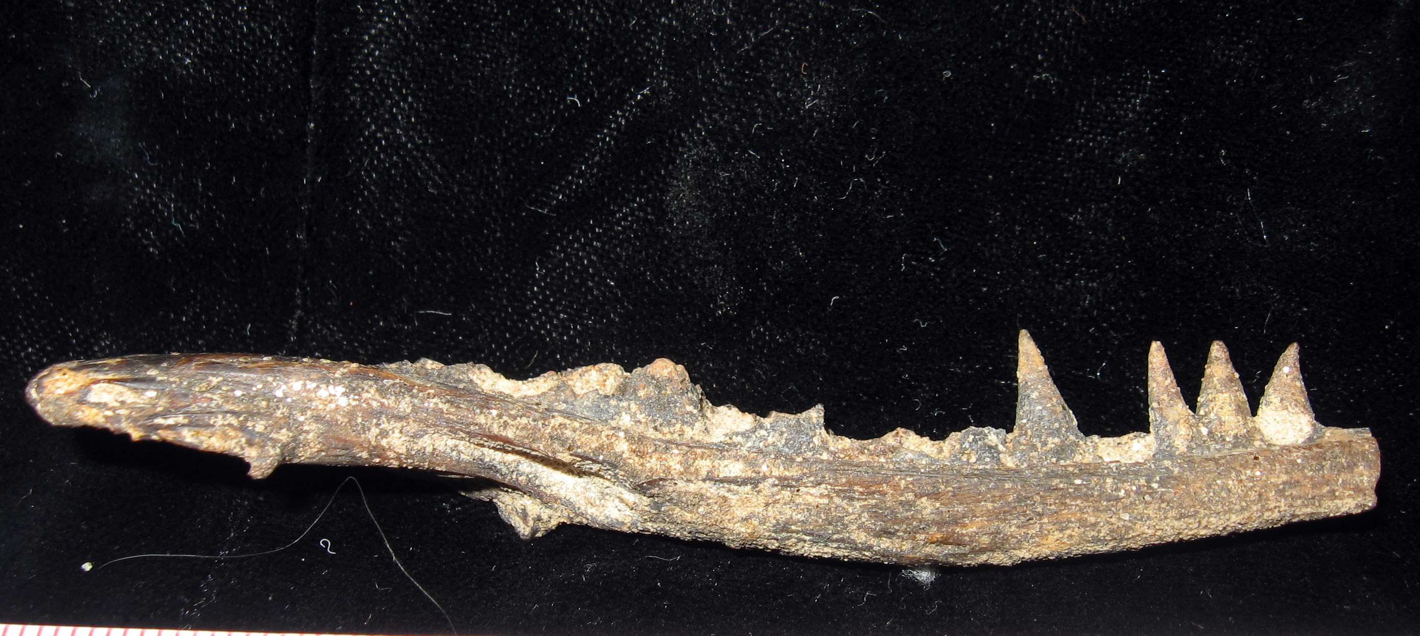 A 7.8cm partial jaw from the extinct freshwater trout Oncorhynchus (Rhabdofario) lacustris. Pliocene, Glenns Ferry Formation, Owyhee County, Idaho, USA